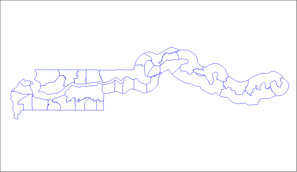 This map has been uploaded by Electionworld from to enable the Wikimedia Atlas of the World . Original uploader to was Rarelibra, known as Rarelibra at . Electionworld is not the creator of this map. Licensing information is below. Map of the districts of The Gambia. Created using MapInfo Professional v7.5 and various mapping resources.